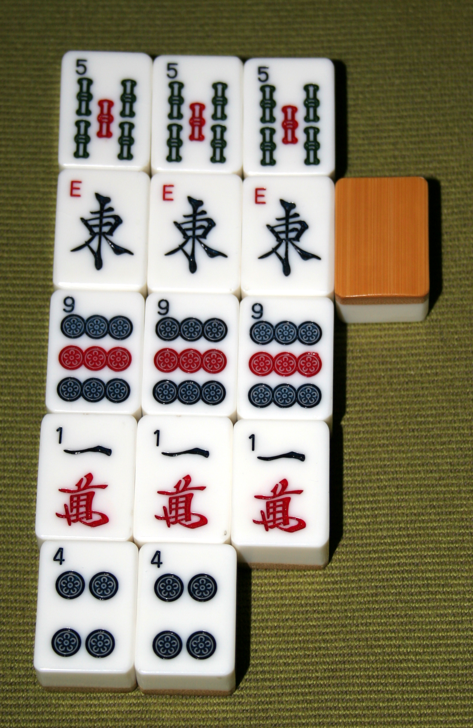 Mahjong with a concealed kong